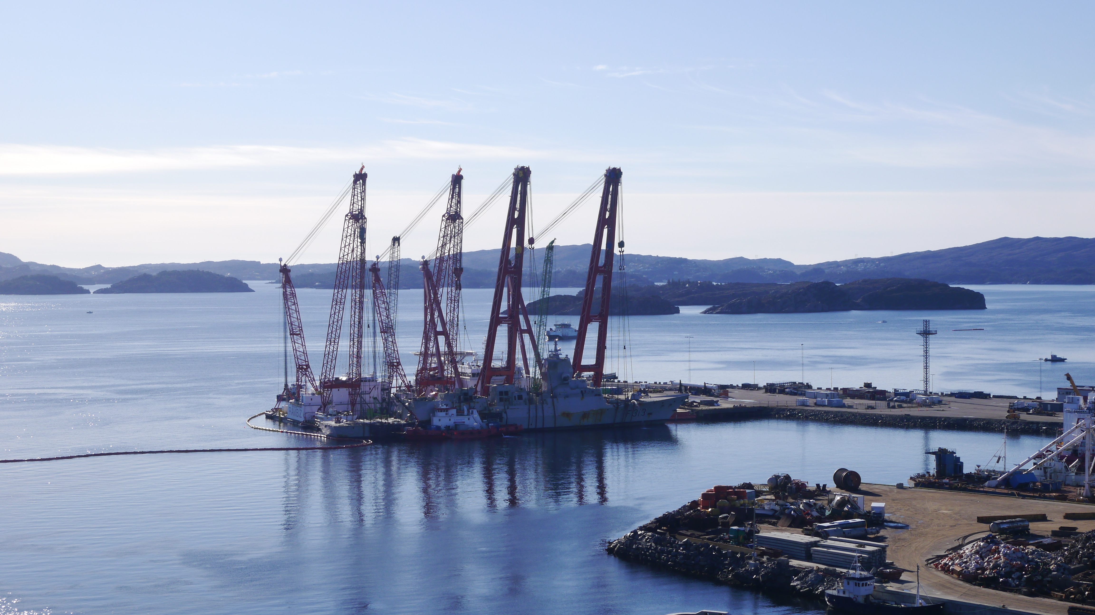 Norwegian navy ship HNoMS Helge Ingstad being salvaged by floating cranes Rambiz and Gulliver at Hanøytangen, Askøy, march 2019.